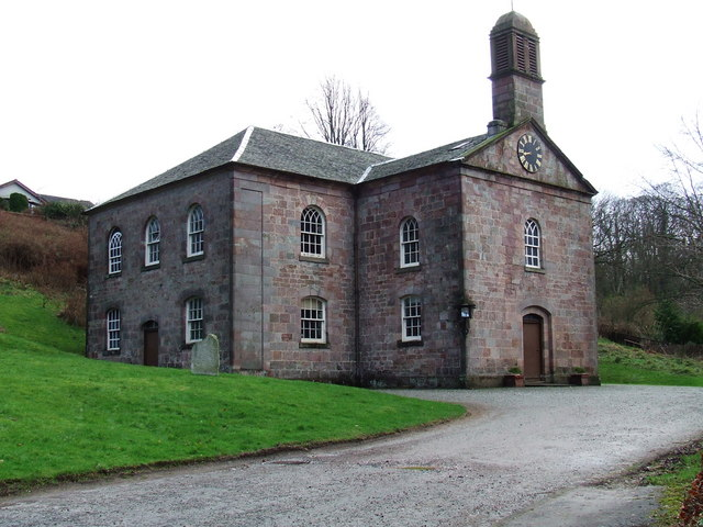 Inverkip Church The clock appears to have lost the minute hand. See also 154203.